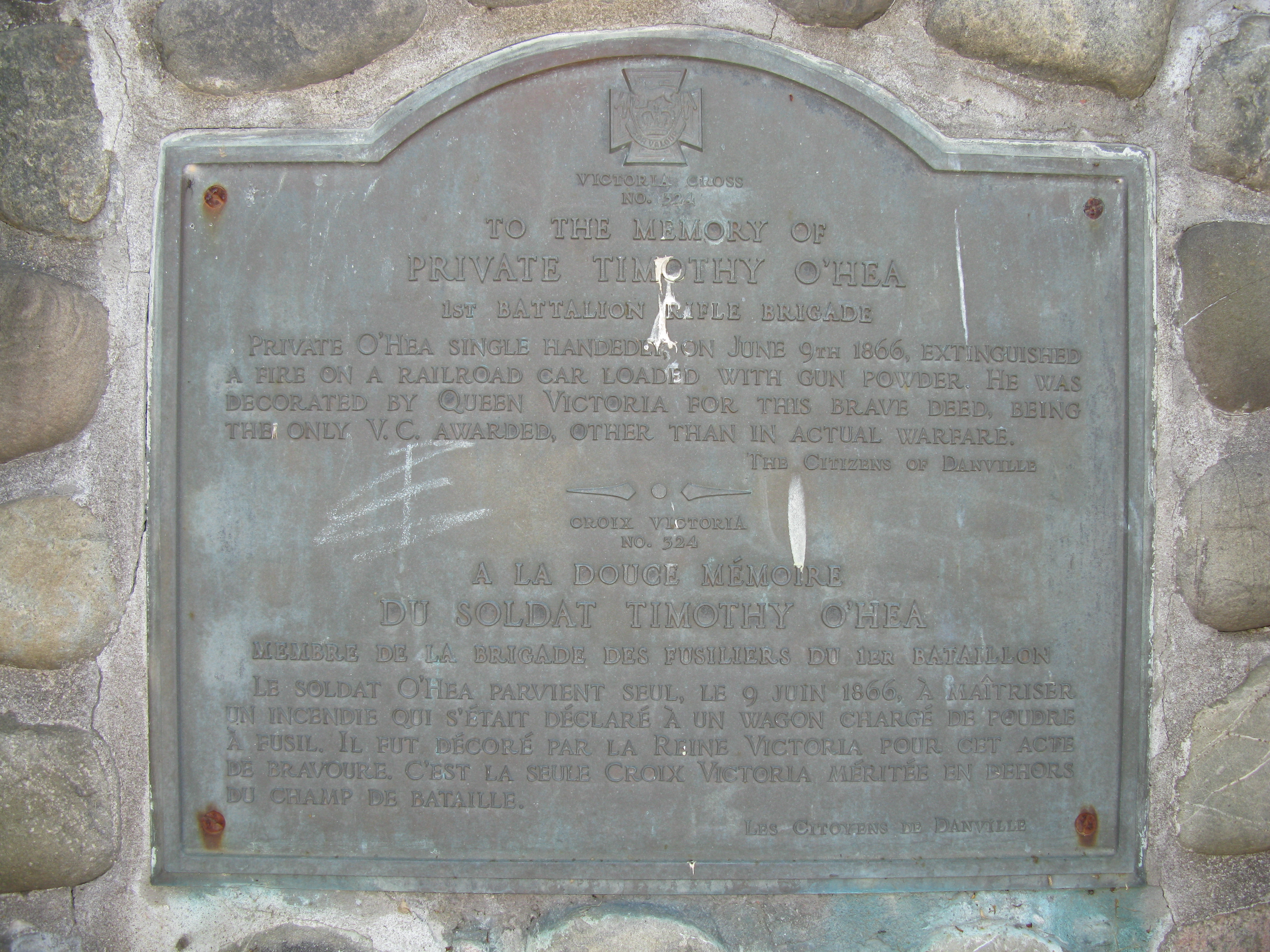 Close-up of the monument to the memory of Private Timothy O'Hea VC in Danville, Quebec, Canada.